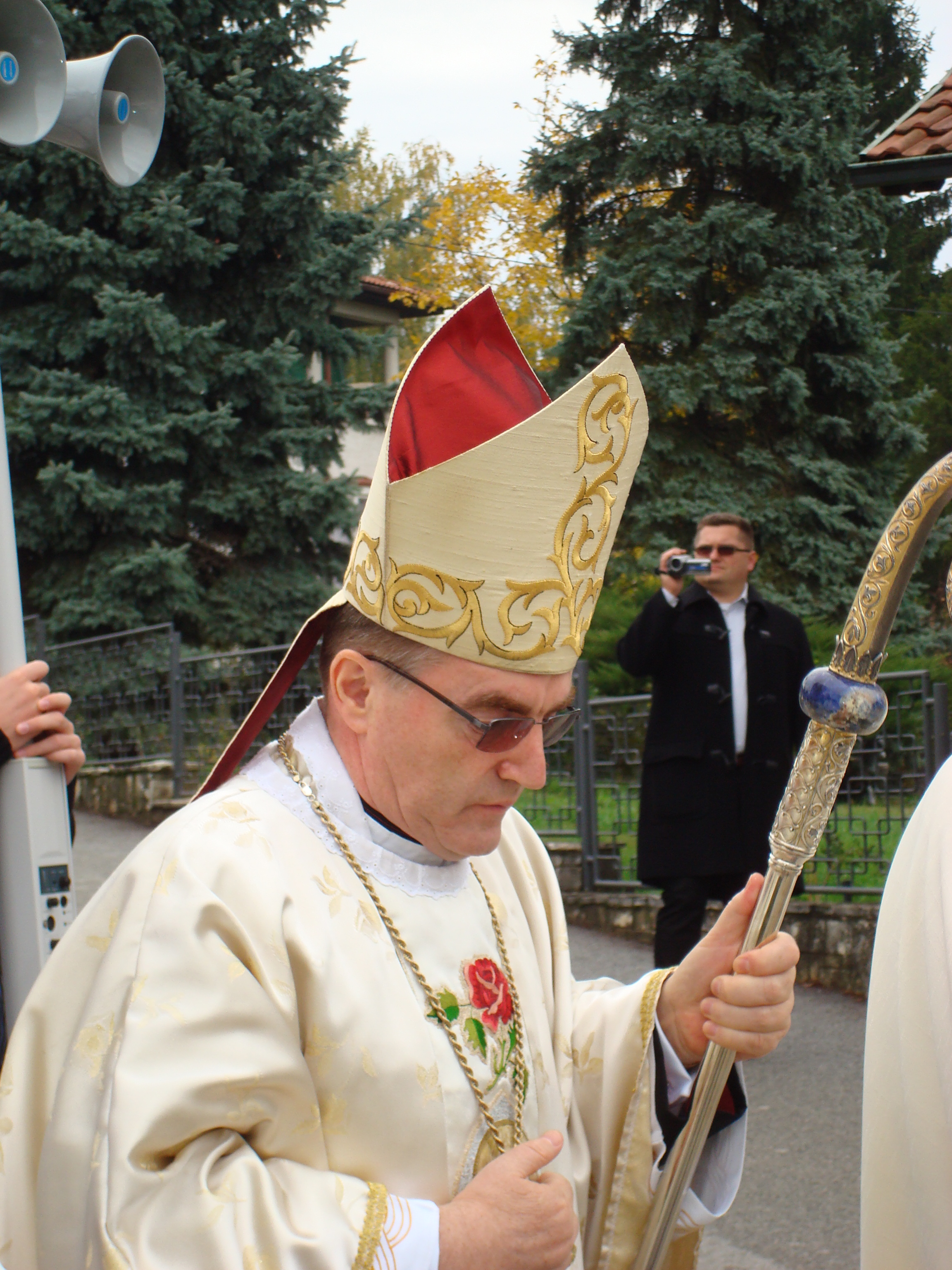 Croatian Cardinal Josip Bozanić.